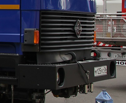 Ural-5323 civilian version